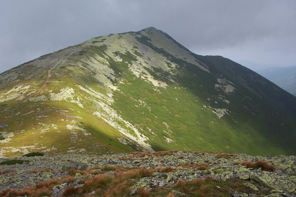 Syvulia - the highest peak in Gorgany.